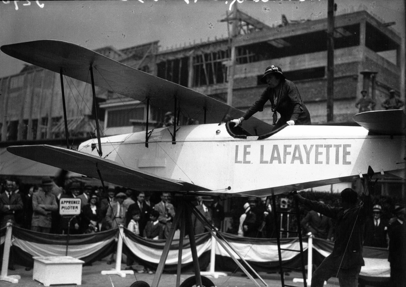 Galeries Lafayette flying school 1932